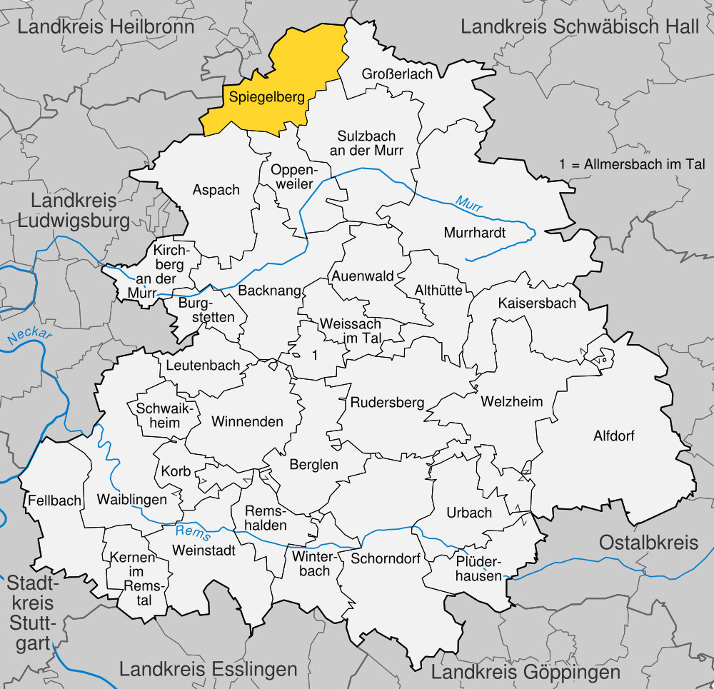 position of Spiegelberg within the Rems-Murr-Kreis, Baden-Württemberg, Germany